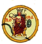 Rome, icon derived from the Tabula Peutingiana